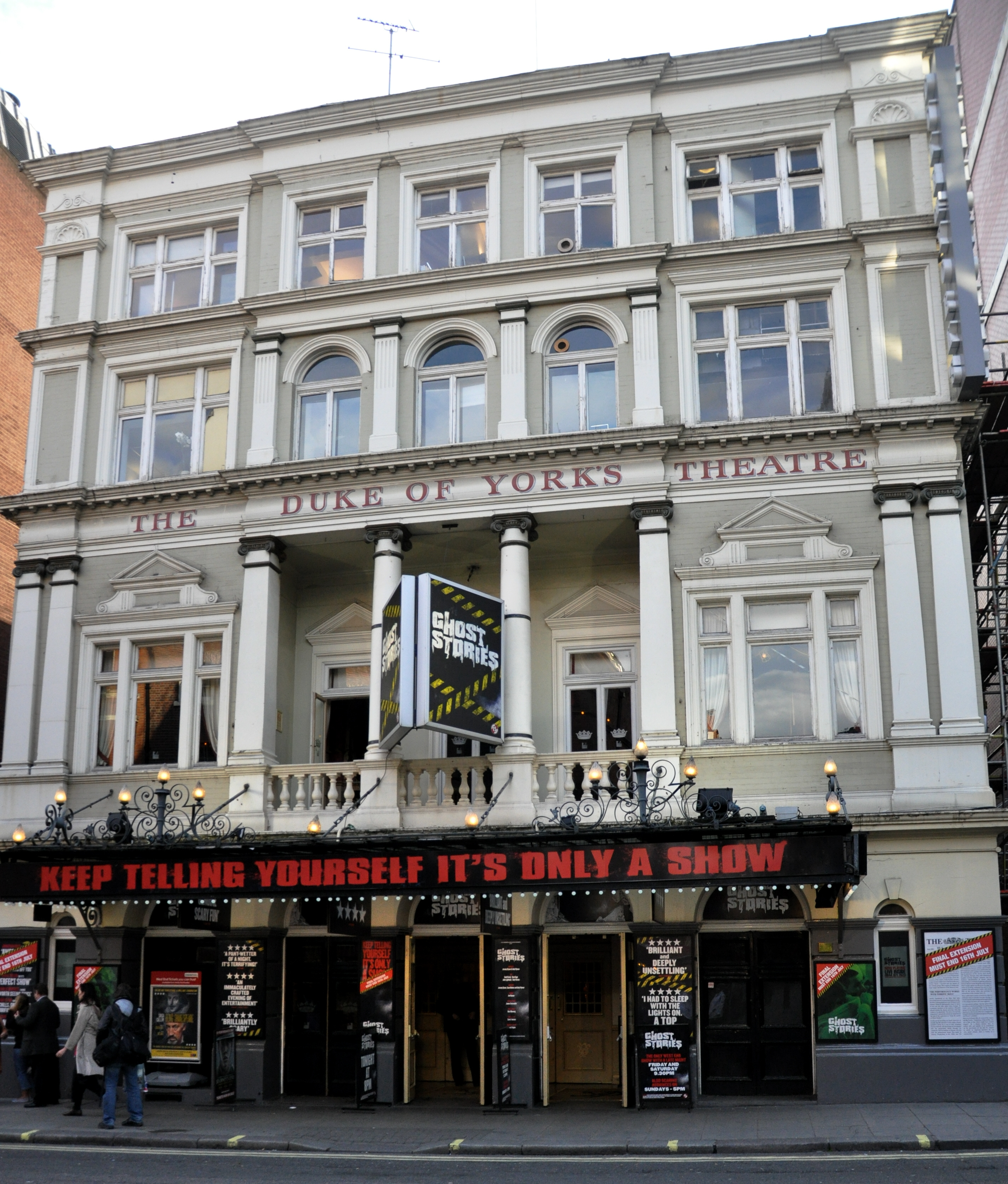 London, Duke of York's Theatre, showing "Ghost Stories"